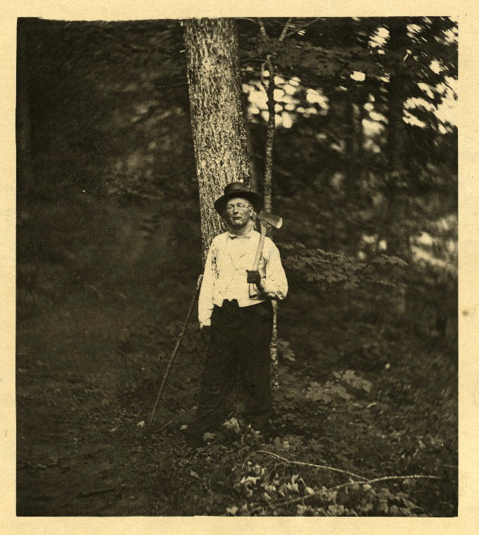 Horace Greeley in the woods at his Chappaqua farm.